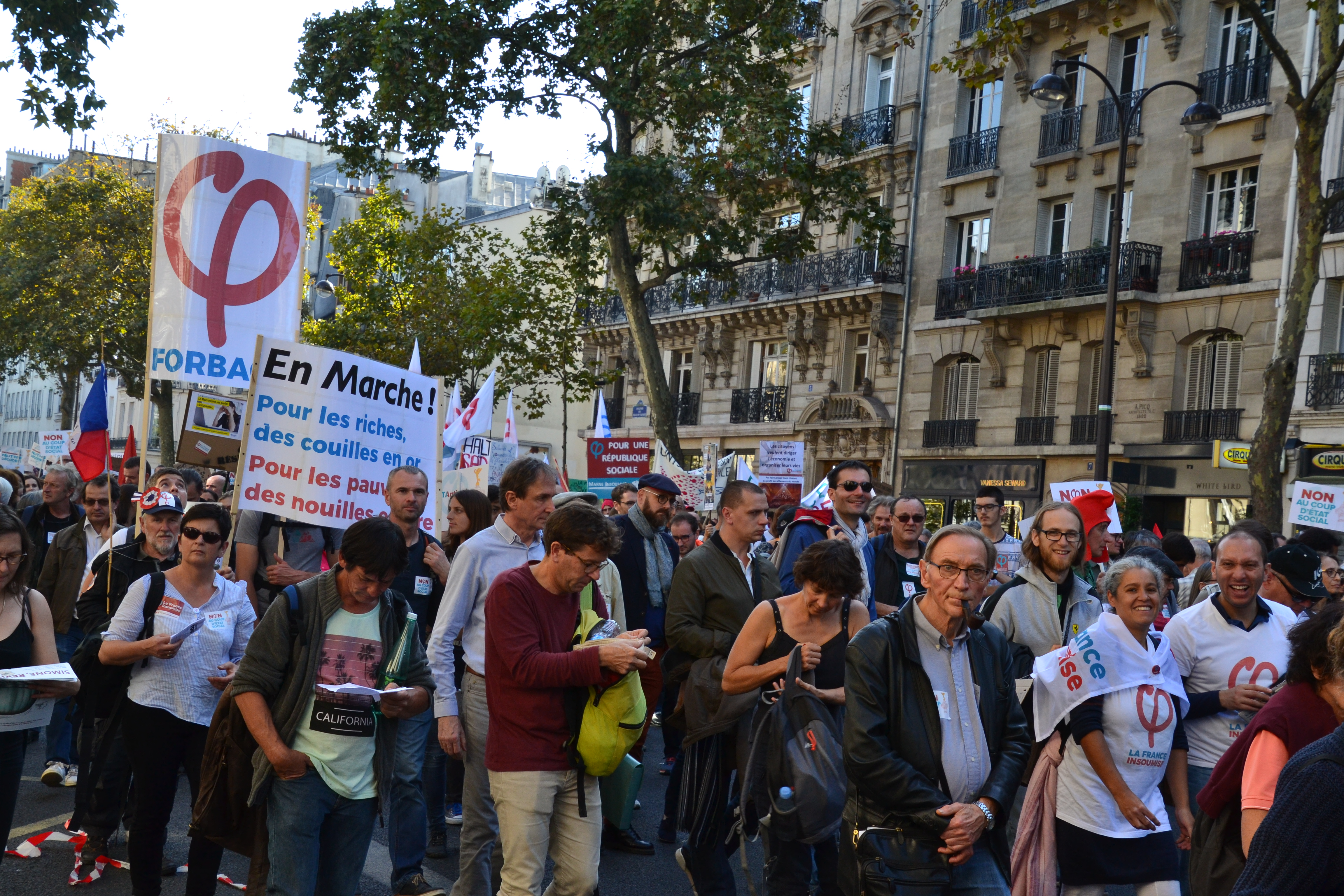 Protesting against President Emmanuel Macron’s unpopular labour reforms in central Paris. This reform aims to make workers more precarious and easy to fire. Marche du 23 septembre 2017 à l'appel des Insoumis et de Mélenchon